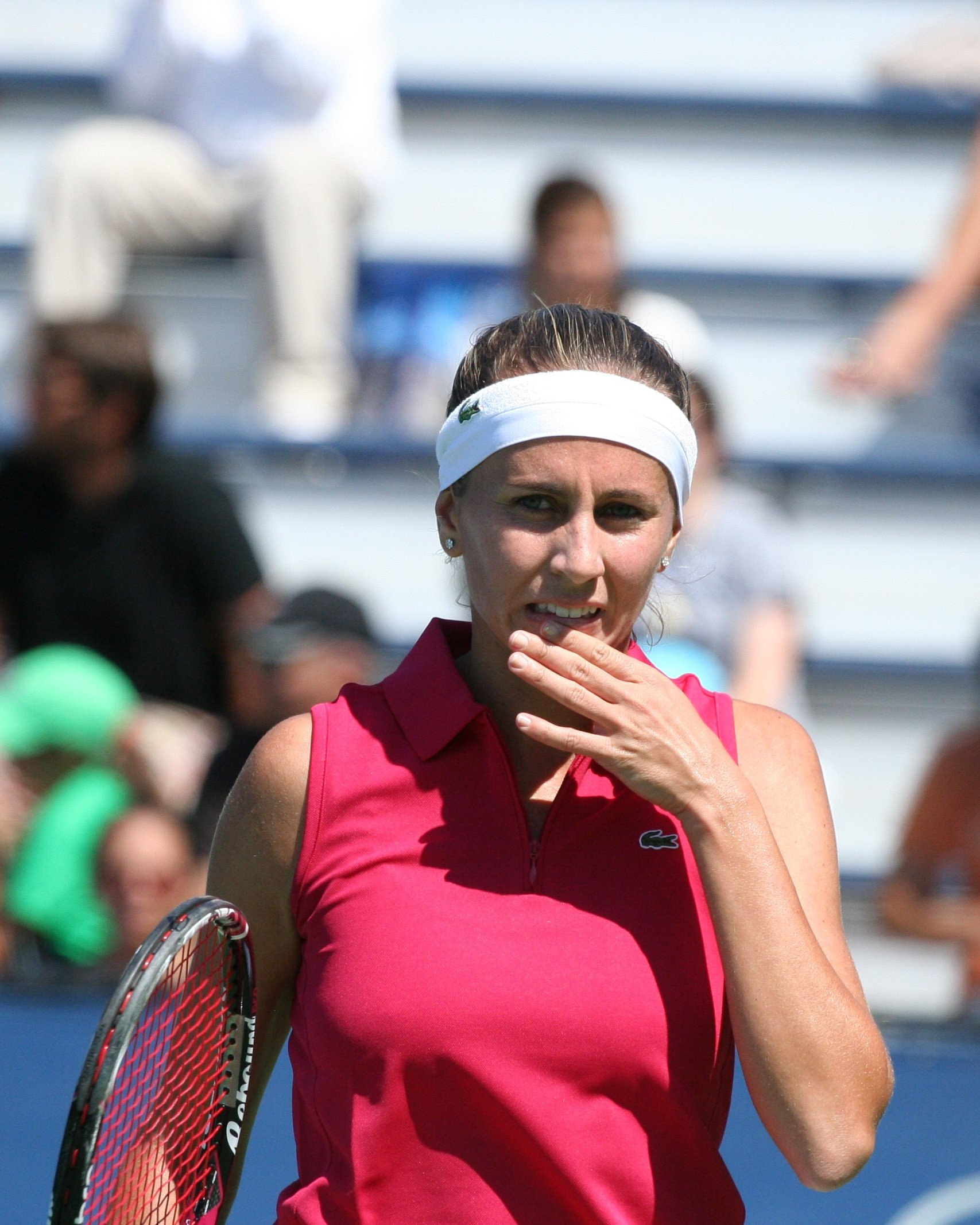 U.S. Open Tuesday, Sept. 1, 2009